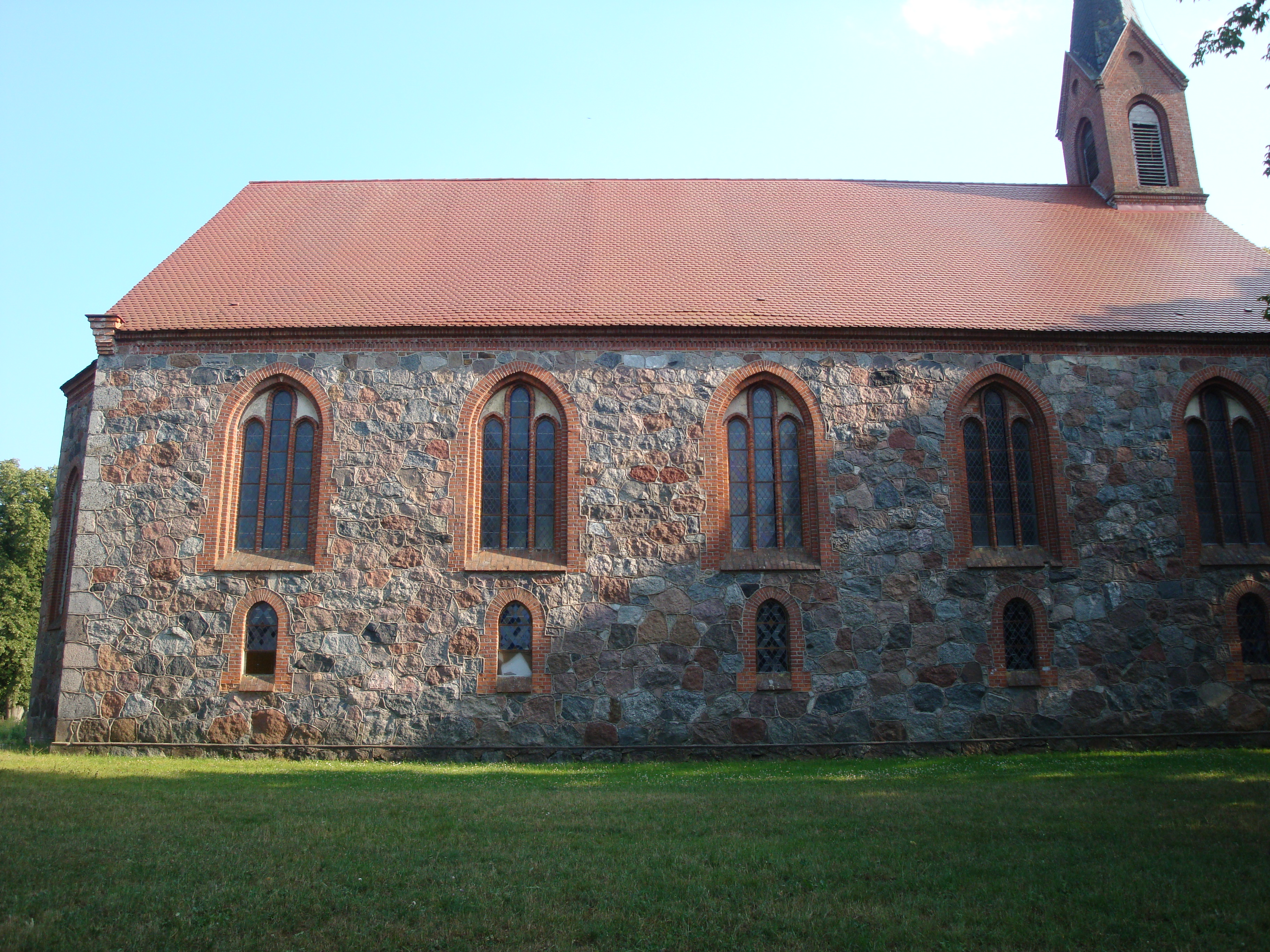 Żelkowoi-village in Pomeranian Voivodeship, PolandChurch of St. Anthony